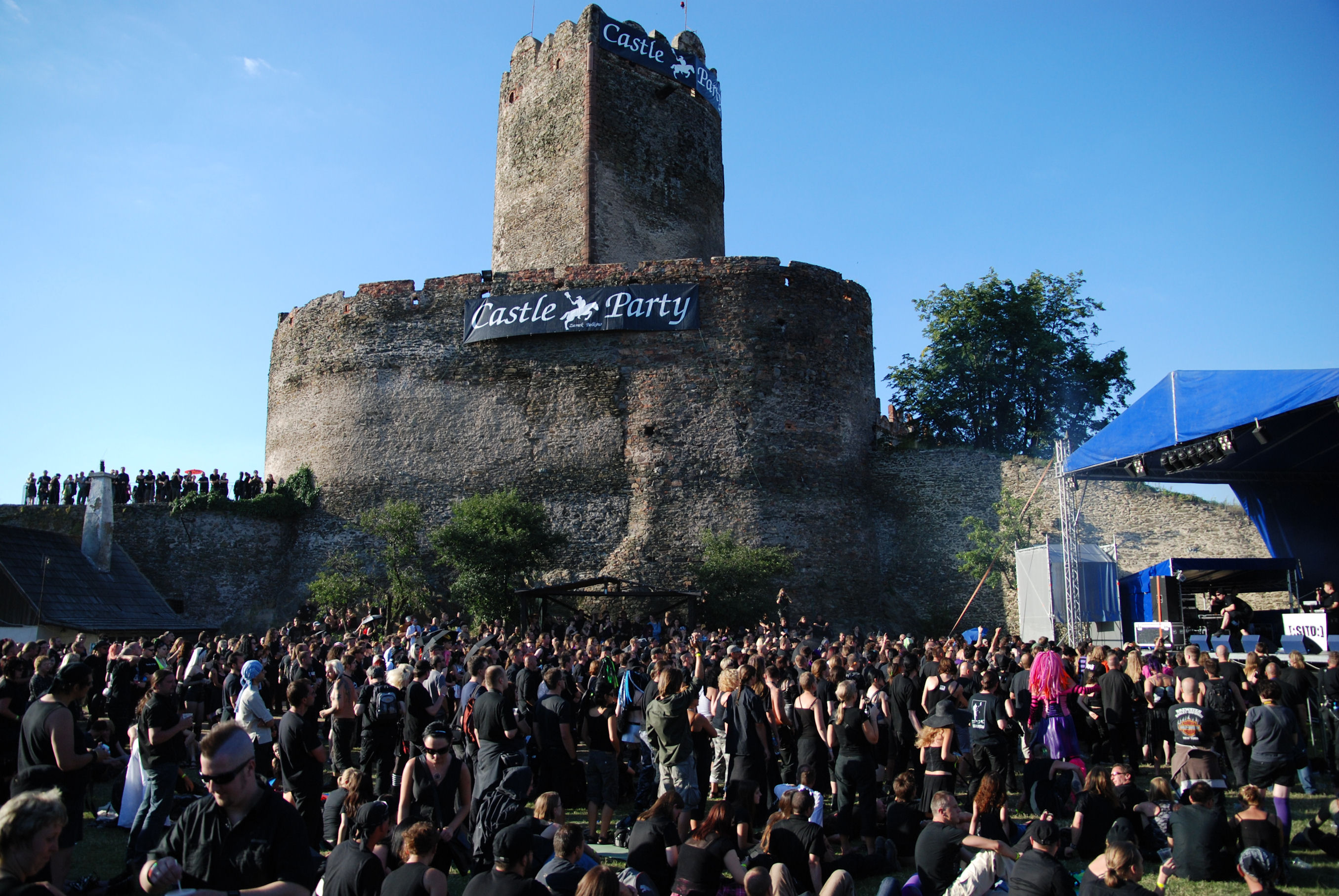 Castle Party 2008